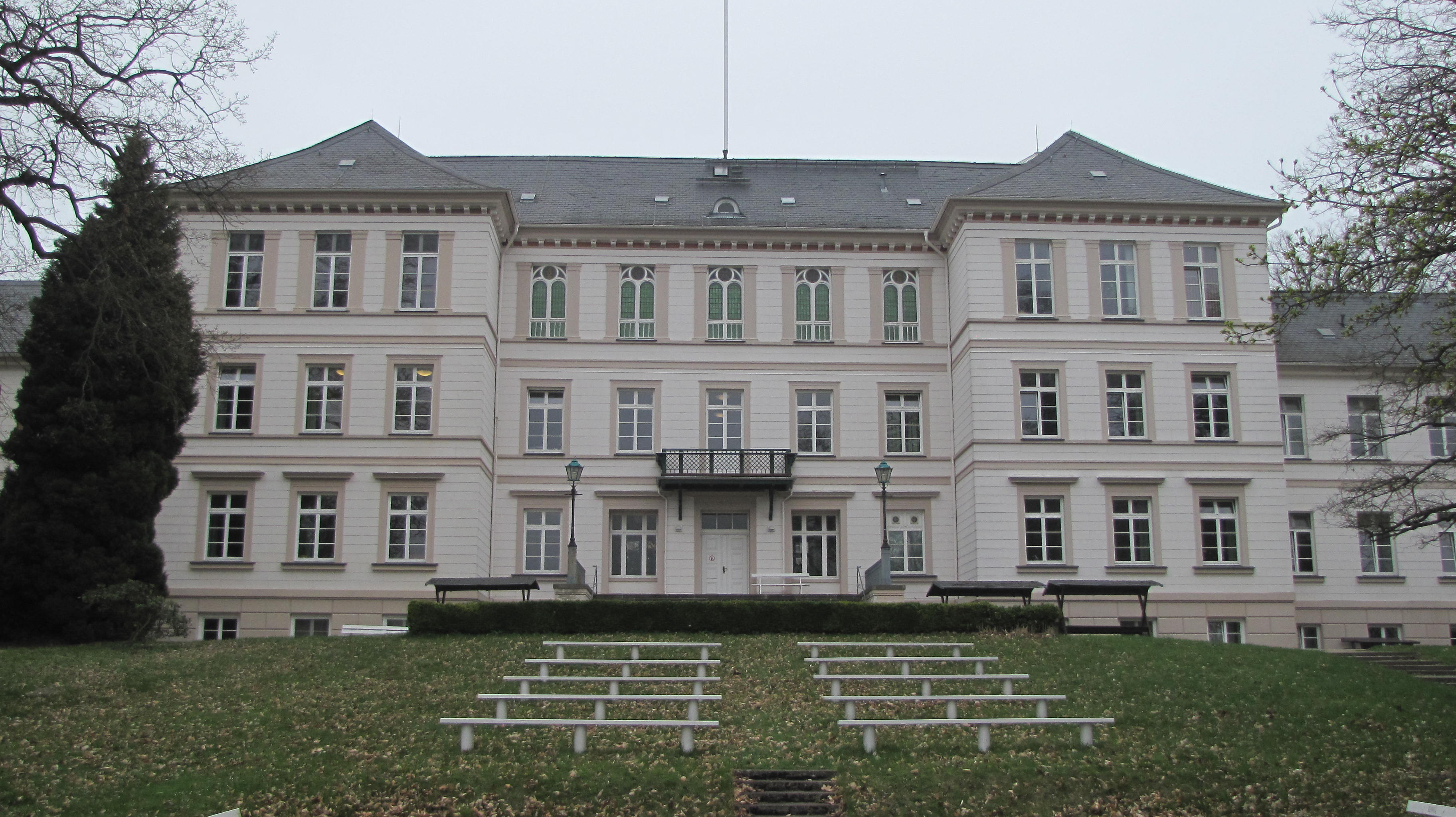 Sachsenberg (Schwerin)